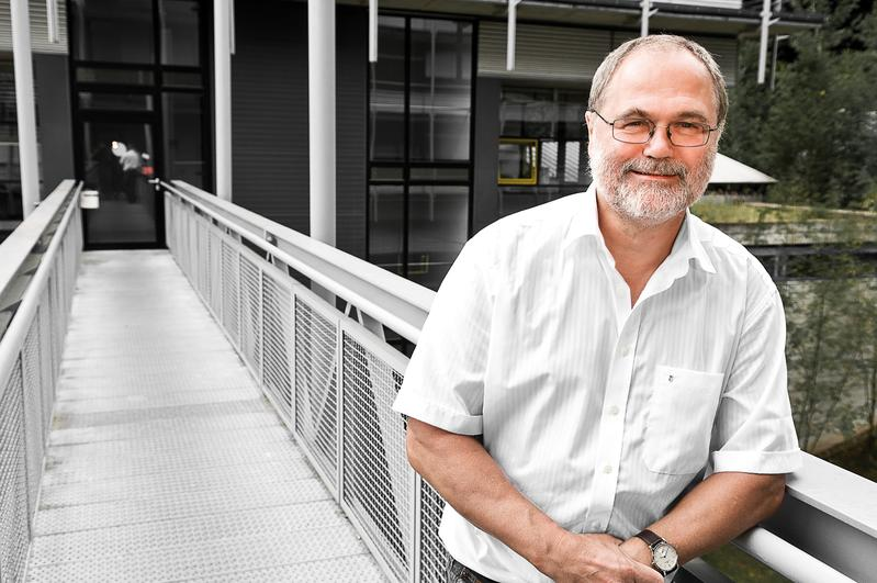 Kurt Mehlhorn, director of the Max Planck Institute for Computer Science at Saarland University, Germany.